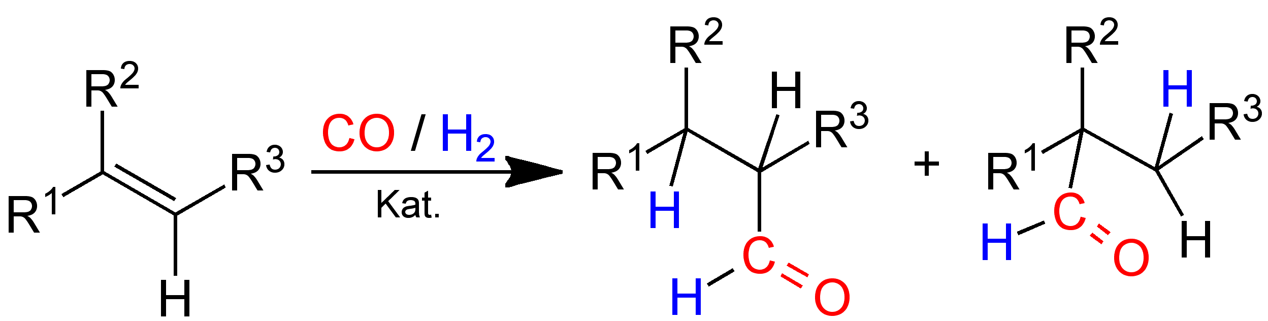 Hydroformylation